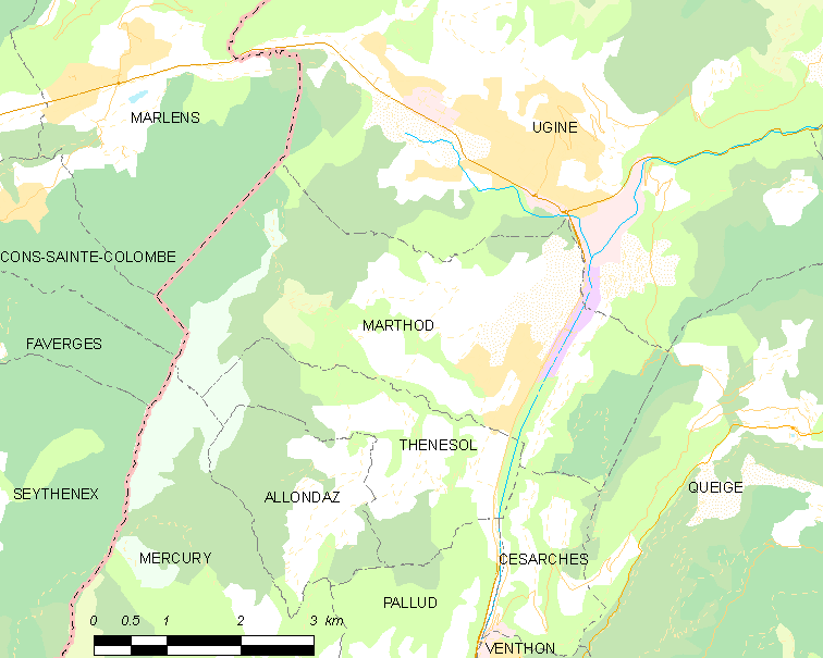 Map of French municipality